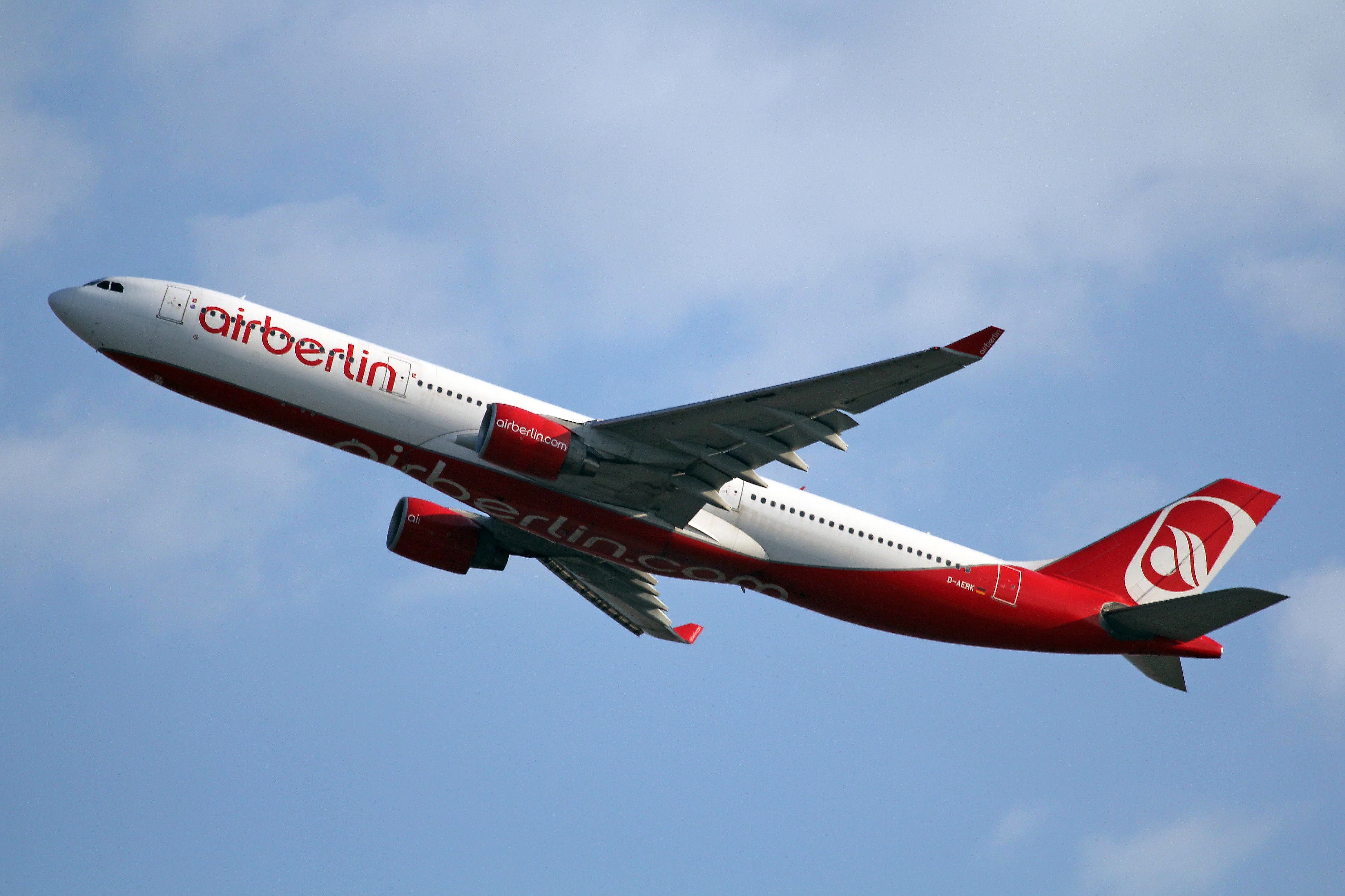 Taken with my 400mm lens on take-off, from Room 615 at the Hotel D'or Alexandra in C'An Pastilla